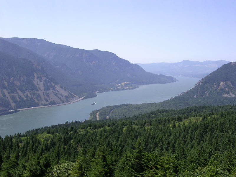 Columbia River Gorge as seen from Dog Mountain, approximately 15 miles upstream from the Bonneville Dam. Interstate 84 can be seen on the far side of the river. Taken by Cacophony on August 1, 2004.